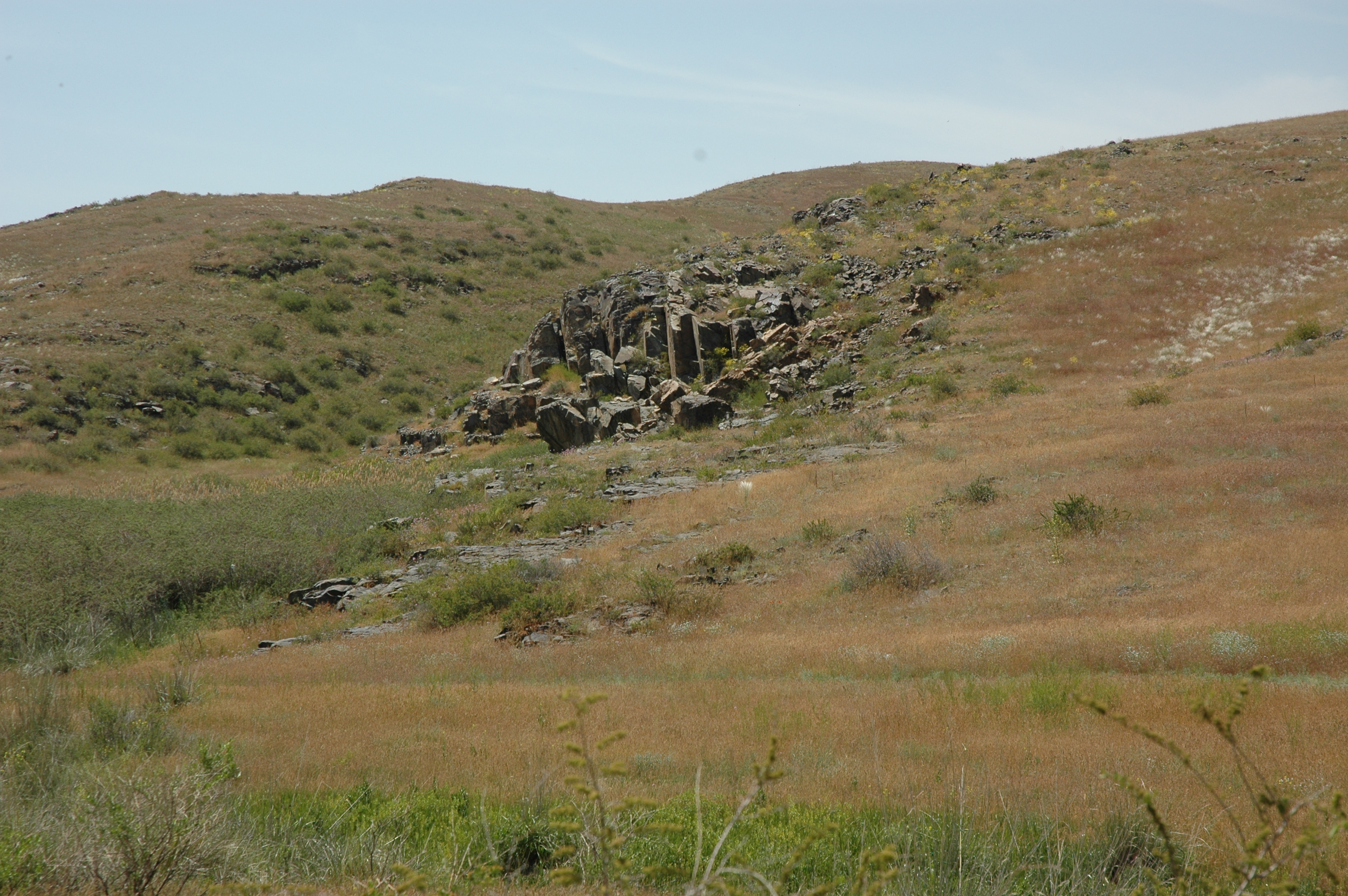 Petroglyphs within the Archaeological Landscape of Tamgaly